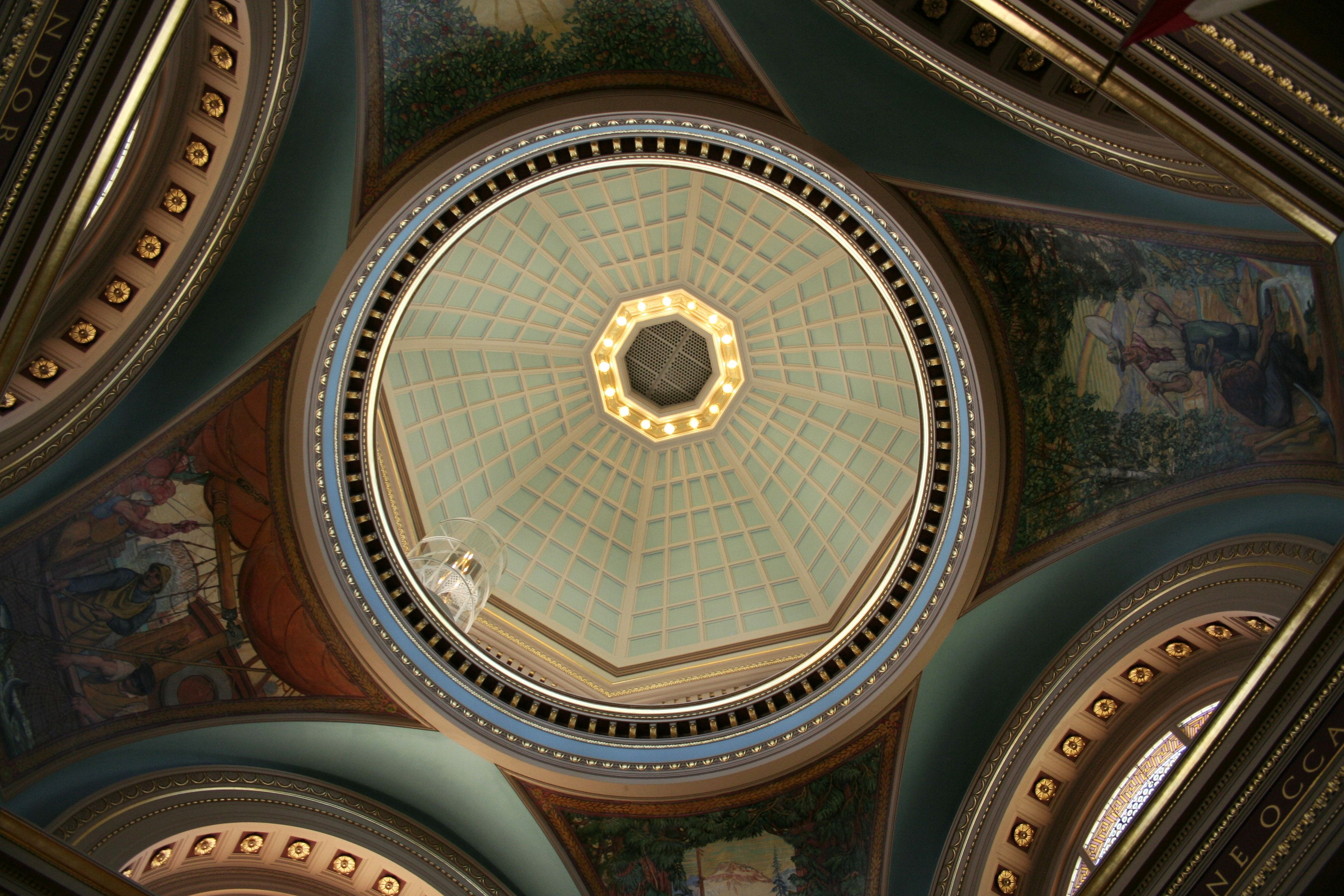 The rotunda of the BC Parliament Building, in Victoria, BC.